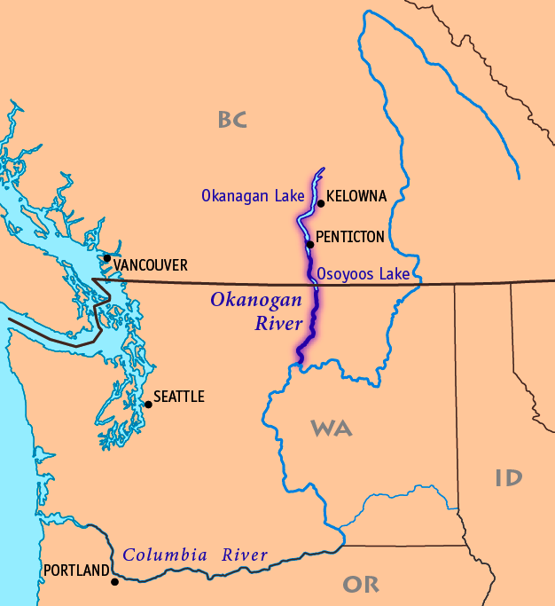 This is a map of the Okanogan River — of the Columbia River Basin; Western United States and Canada. Credits I, Pfly, created it based on USGS and Digital Chart of the World data.